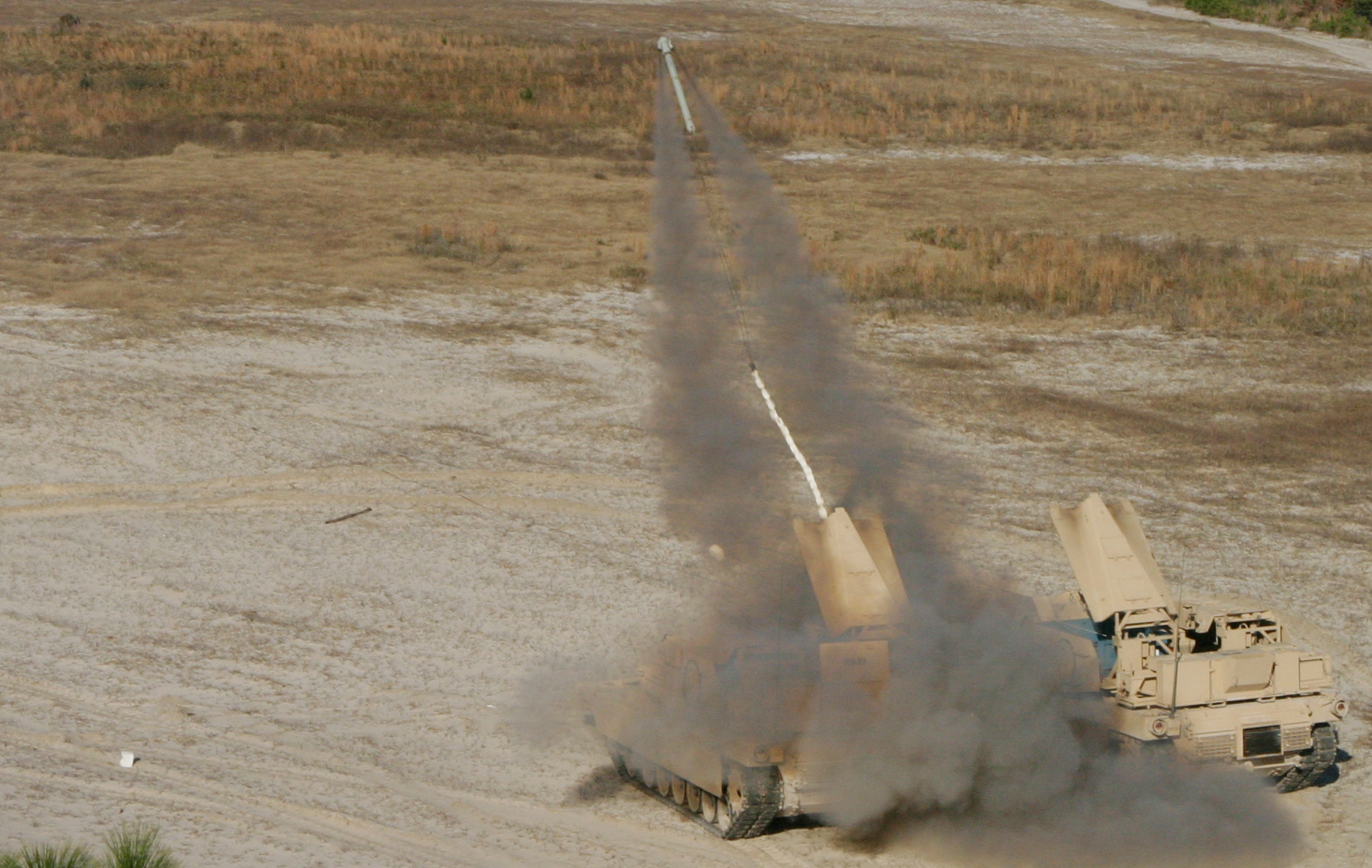 Marines with 2nd Combat Engineer Battalion launch a line charge from an Assault Breacher Vehicle here for the first time in the fleet, Nov. 23. The line charge, a long string of C4 explosives attached to a rocket, is used to clear a lane of all mines or improvised explosive devices so that tanks and other large equipment have a safe path to navigate on. (Official Marine Corps Photo by Lance Cpl. Brian M. Woodruff) (RELEASED)